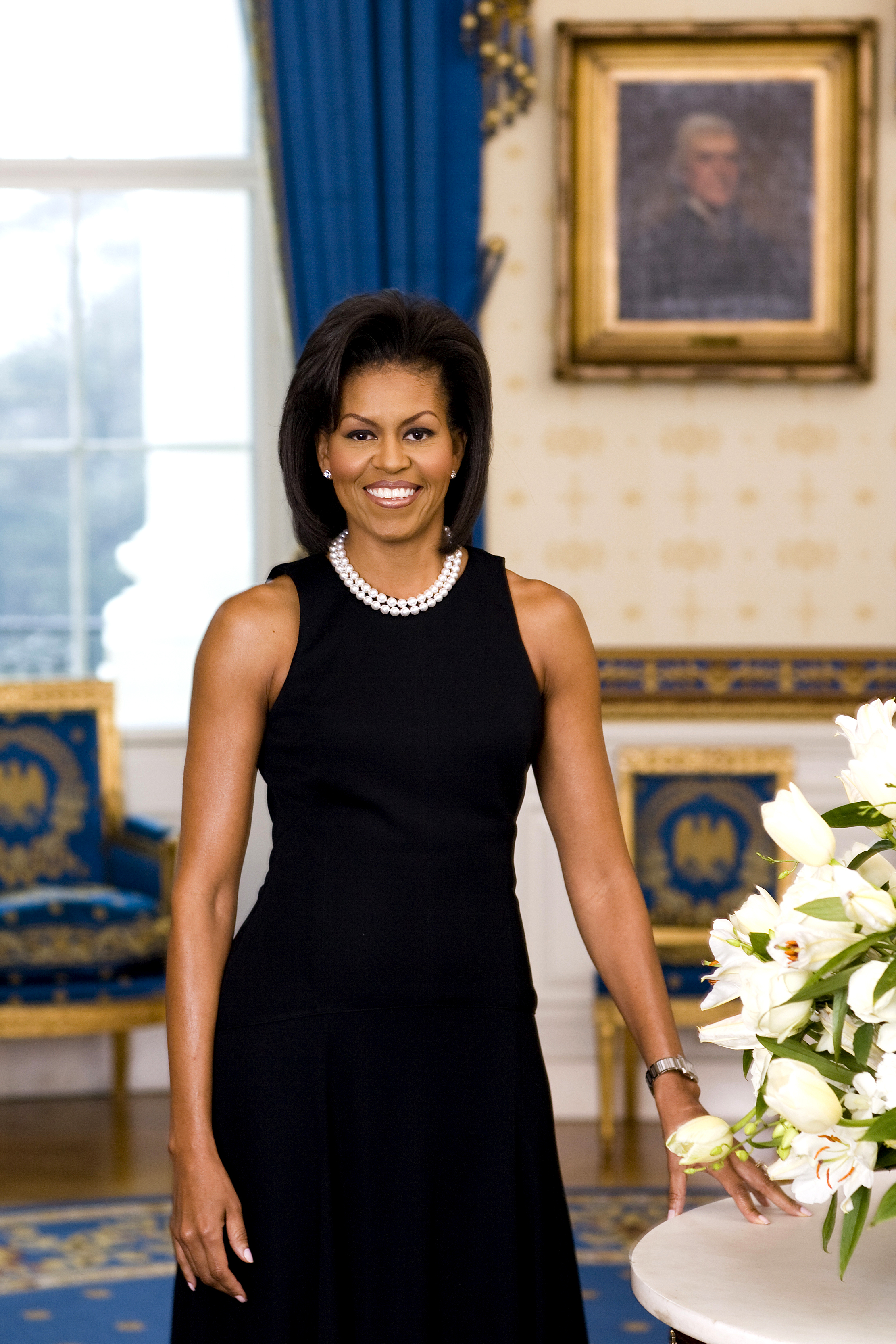 Michelle Obama, official White House portrait.